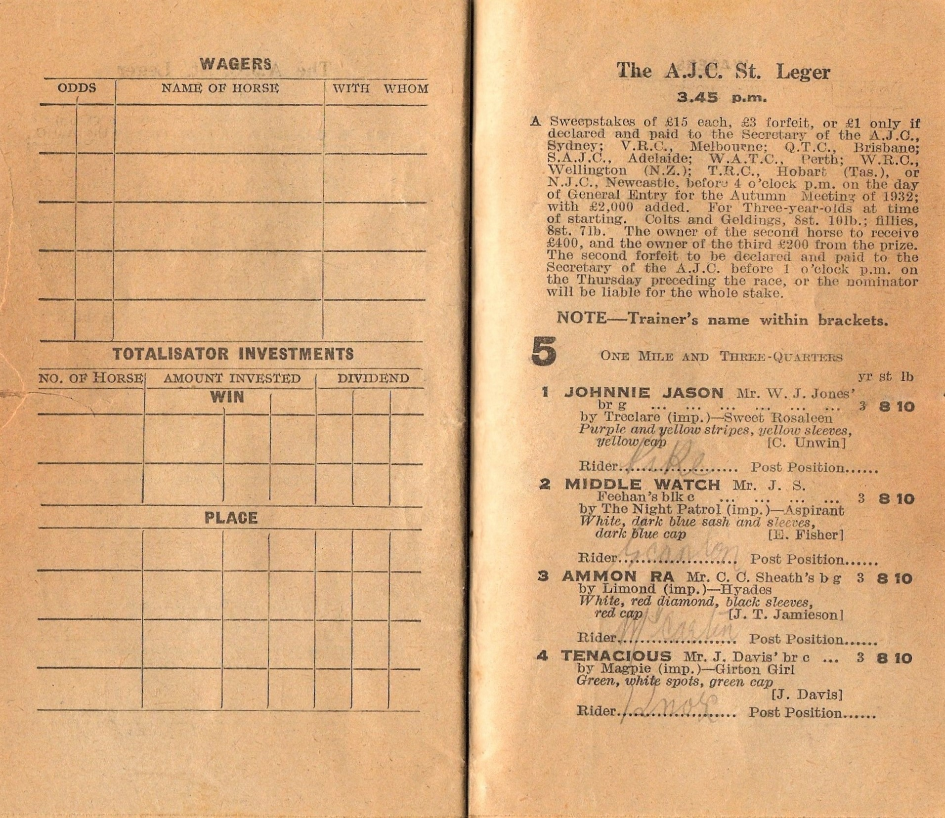 1932 AJC St Leger racebook scanned from original